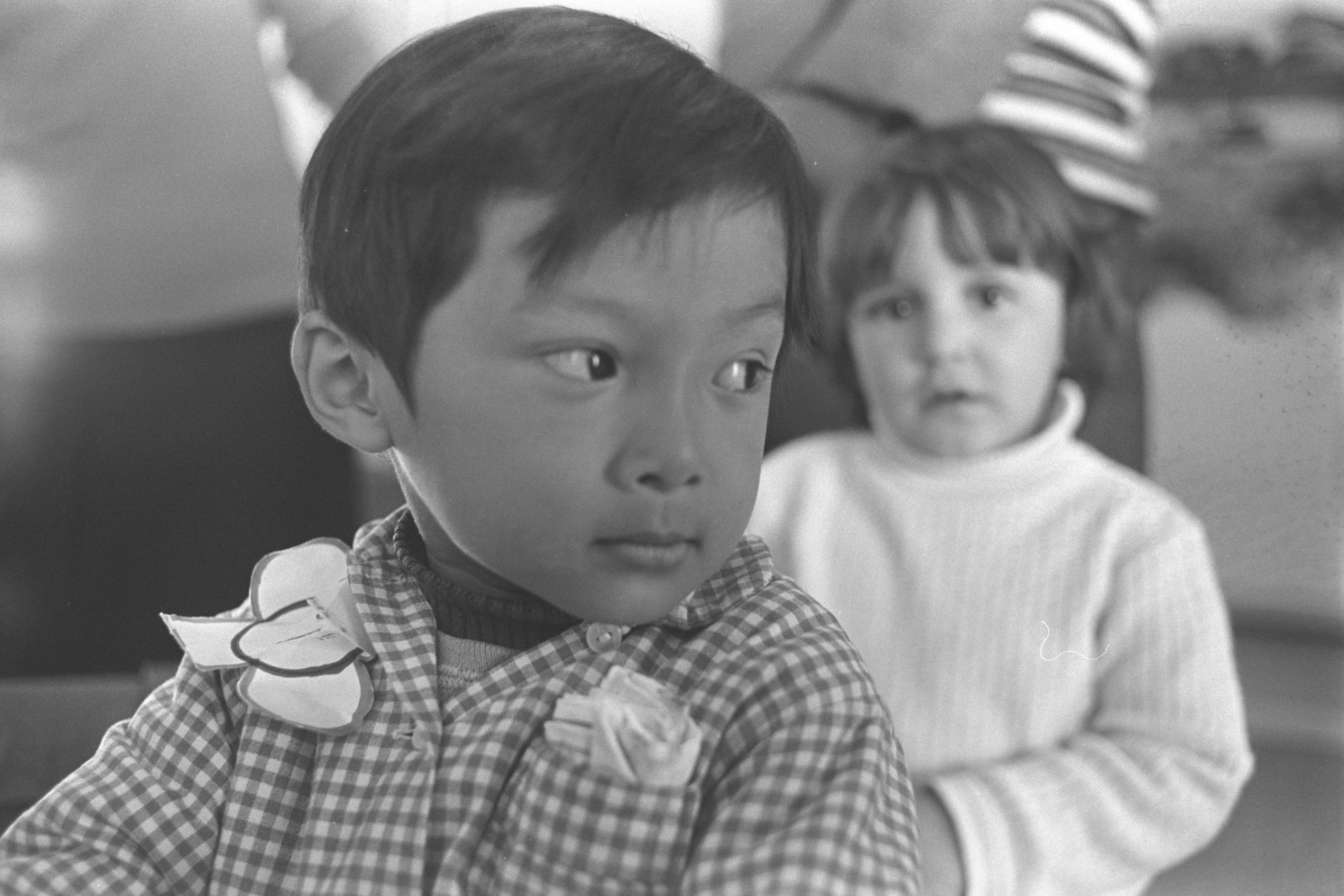 A Vietnamese boy in Wizo kindergarten in Afula. Photograph: Yaakov Saar (1951–) Alternative names SA'AR YA'ACOV; Jacob Saar; Saʻar, YaʻaḳovDescriptionIsraeli photographerDate of birth 1951 Authority control : Q28751896 VIAF: 298161188 NLI: 001394176 creator QS:P170,Q28751896 , GPO. 04/02/1979